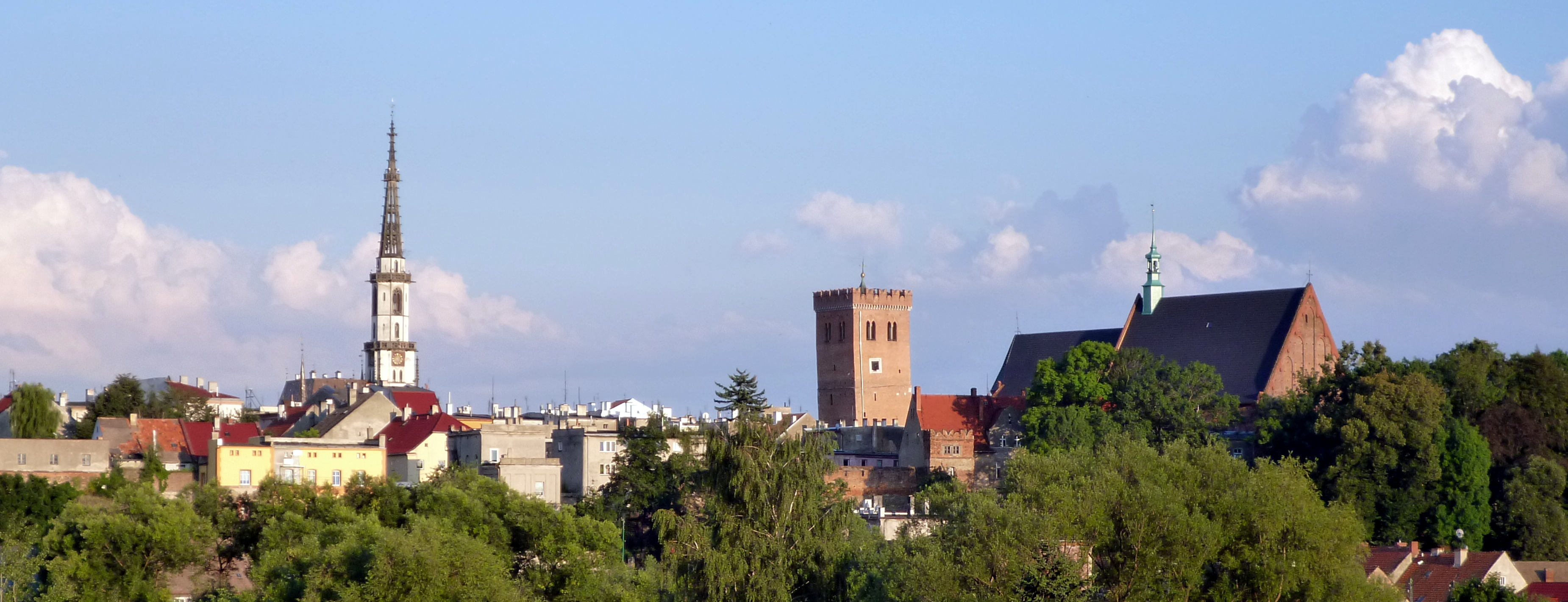 The skyline of a part of Ząbkowice Śląskie.